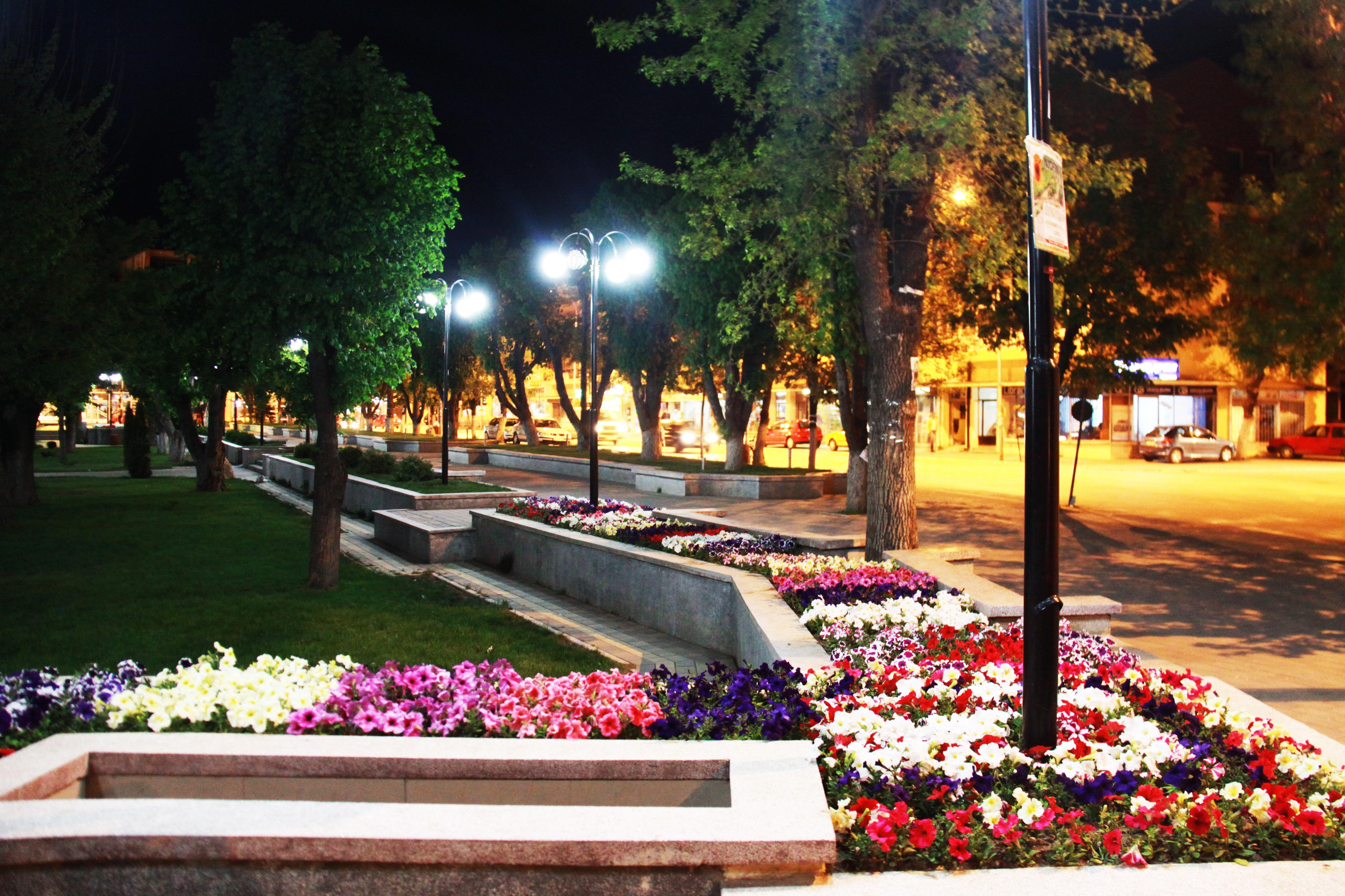 Park in City Podujeva Kosovo